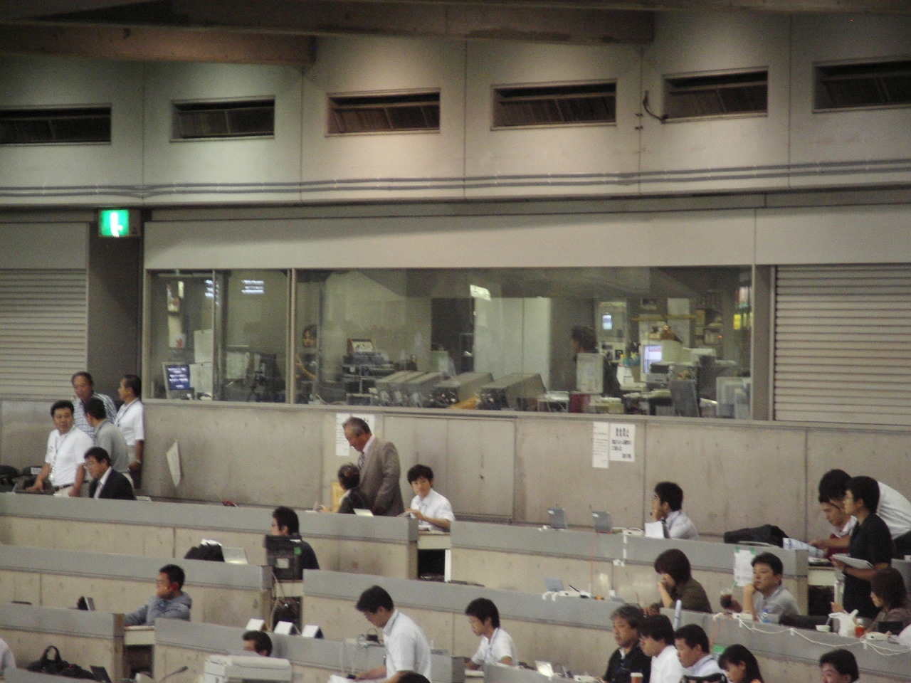 The Intercity Baseball Tournament 2007 Tokyo Dome